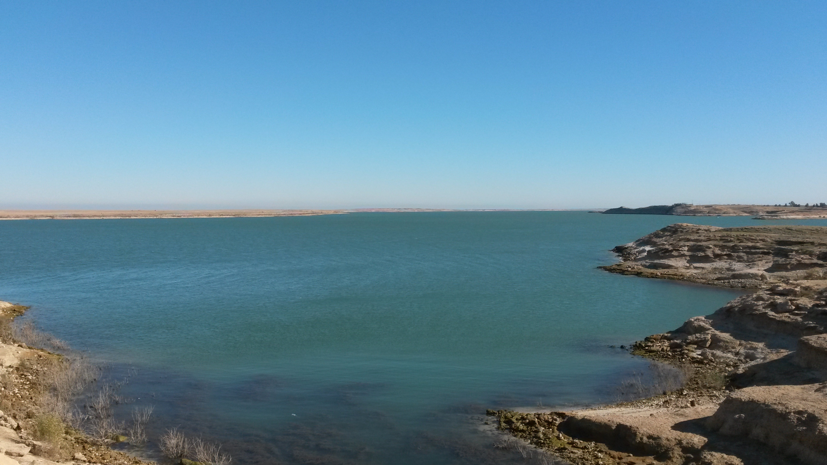 Anah - Haditha lake, Iraq